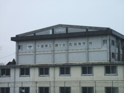 Gymnasium of the Chiba Prefectural Kamagaya Nishi High School